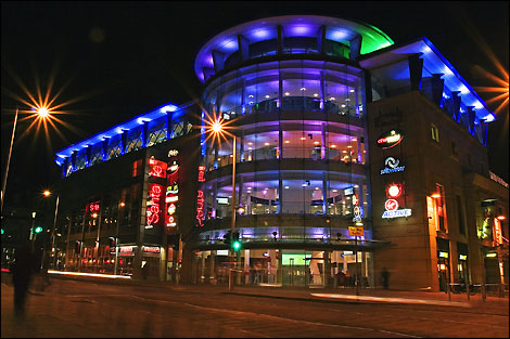 Corner House, Nottingham. Retail and Leisure building.